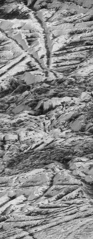 During its twelfth orbit around Jupiter, on Dec. 16, 1997, NASA's Galileo spacecraft made its closest pass of Jupiter's icy moon Europa, soaring 200 kilometers (124 miles) above the icy surface. This image was taken near the closest approach point, at a range of 560 kilometers (335 miles) and is the highest resolution picture of Europa that will be obtained by Galileo. The image was taken at a highly oblique angle. The features at the bottom of the image are much closer to the viewer than those at the top of the image. Many bright ridges are seen in the picture, with dark material in the low-lying valleys. In the center of the image, the regular ridges and valleys give way to a darker region of jumbled hills, which may be one of the many dark pits observed on the surface of Europa. Smaller dark, circular features seen here are probably impact craters. North is to the right of the picture, and the sun illuminates the surface from that direction. This image, centered at approximately 13 degrees south latitude and 235 degrees west longitude, is approximately 1.8 kilometers (1 mile) wide. The resolution is 6 meters (19 feet) per picture element. This image was taken on December 16, 1997 by the solid state imaging system camera on NASA's Galileo spacecraft. The Jet Propulsion Laboratory, Pasadena, CA manages the Galileo mission for NASA's Office of Space Science, Washington, DC. JPL is an operating division of California Institute of Technology (Caltech). This image and other images and data received from Galileo are posted on the World Wide Web, on the Galileo mission home page at URL galileo.